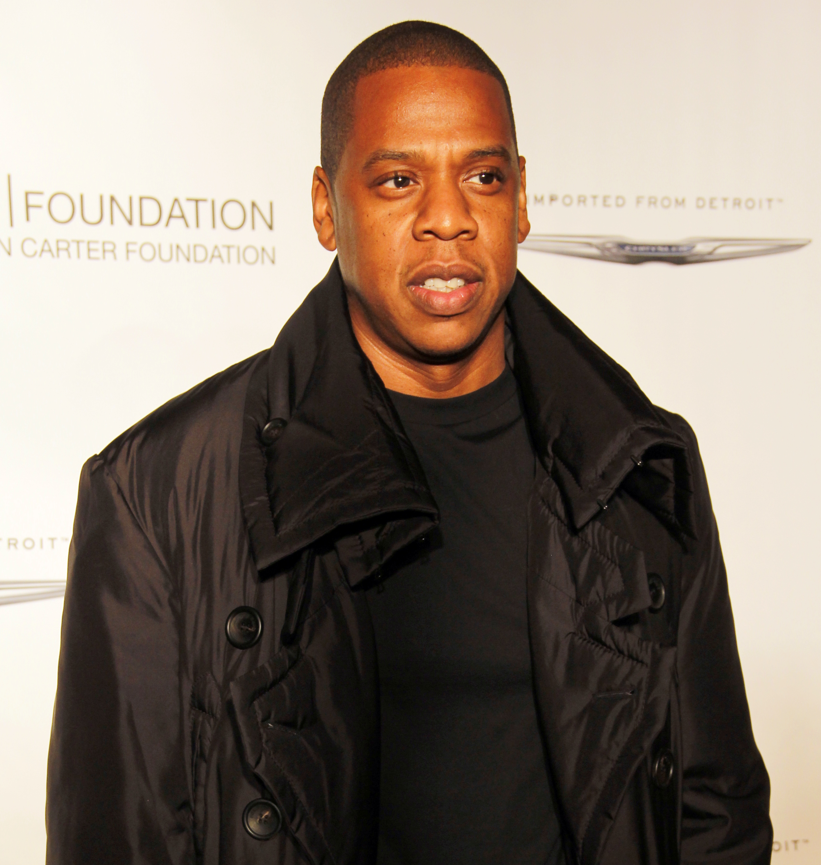 Shawn 'Jay-Z' Carter Foundation Carnival 2011.